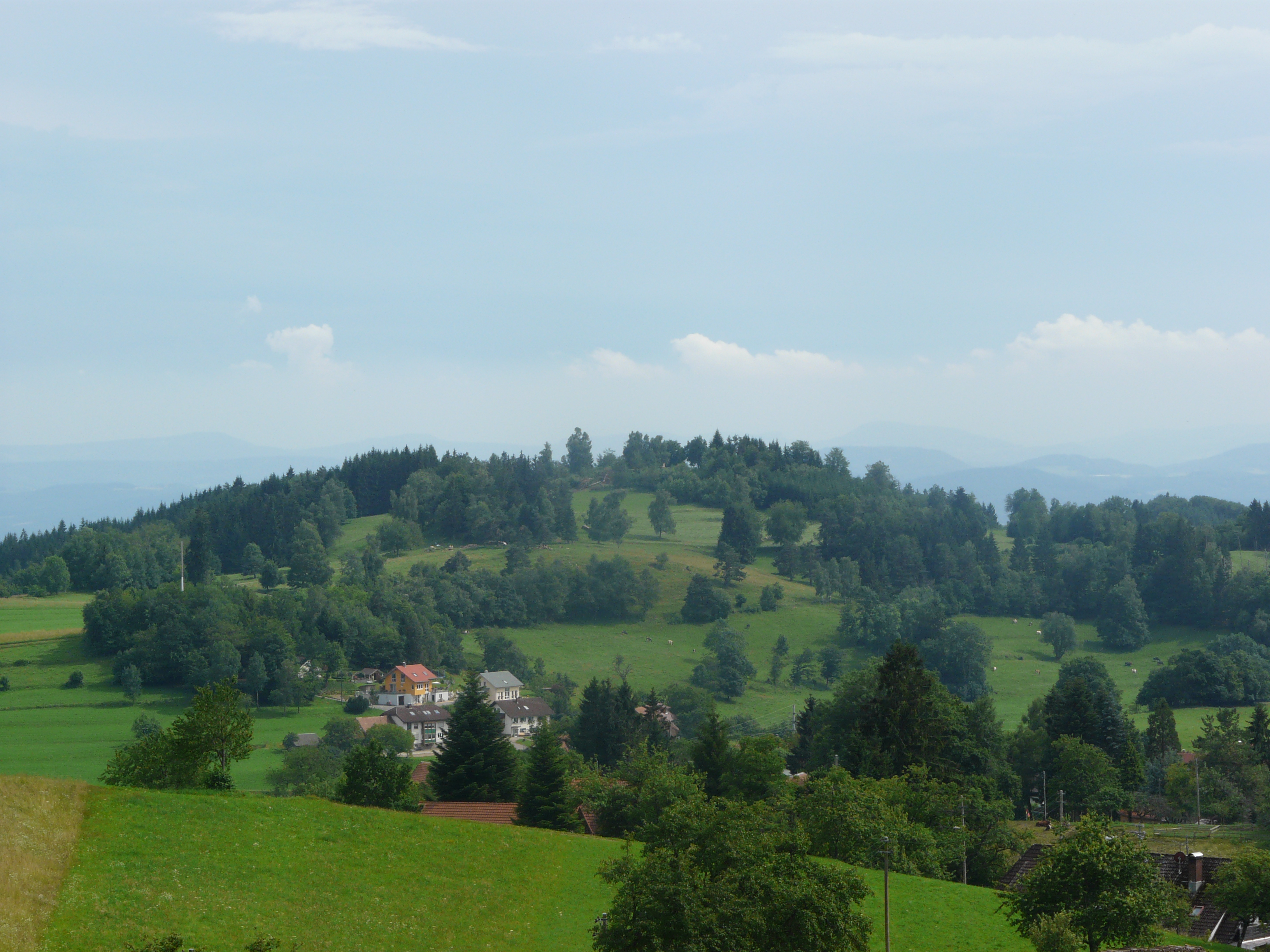 Gresgen and the "Rümmelesbühl" hill